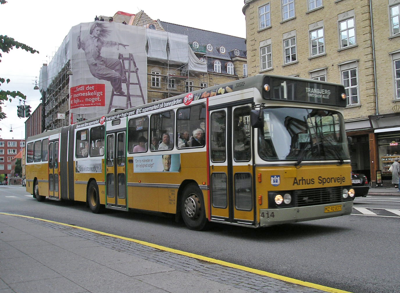 Århus sporveje articulated bus 414 on line 1 on Park Alle at Århus town hall.